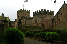 Photograph of Hoghton Tower, cropped and enhanced by myself enhanced